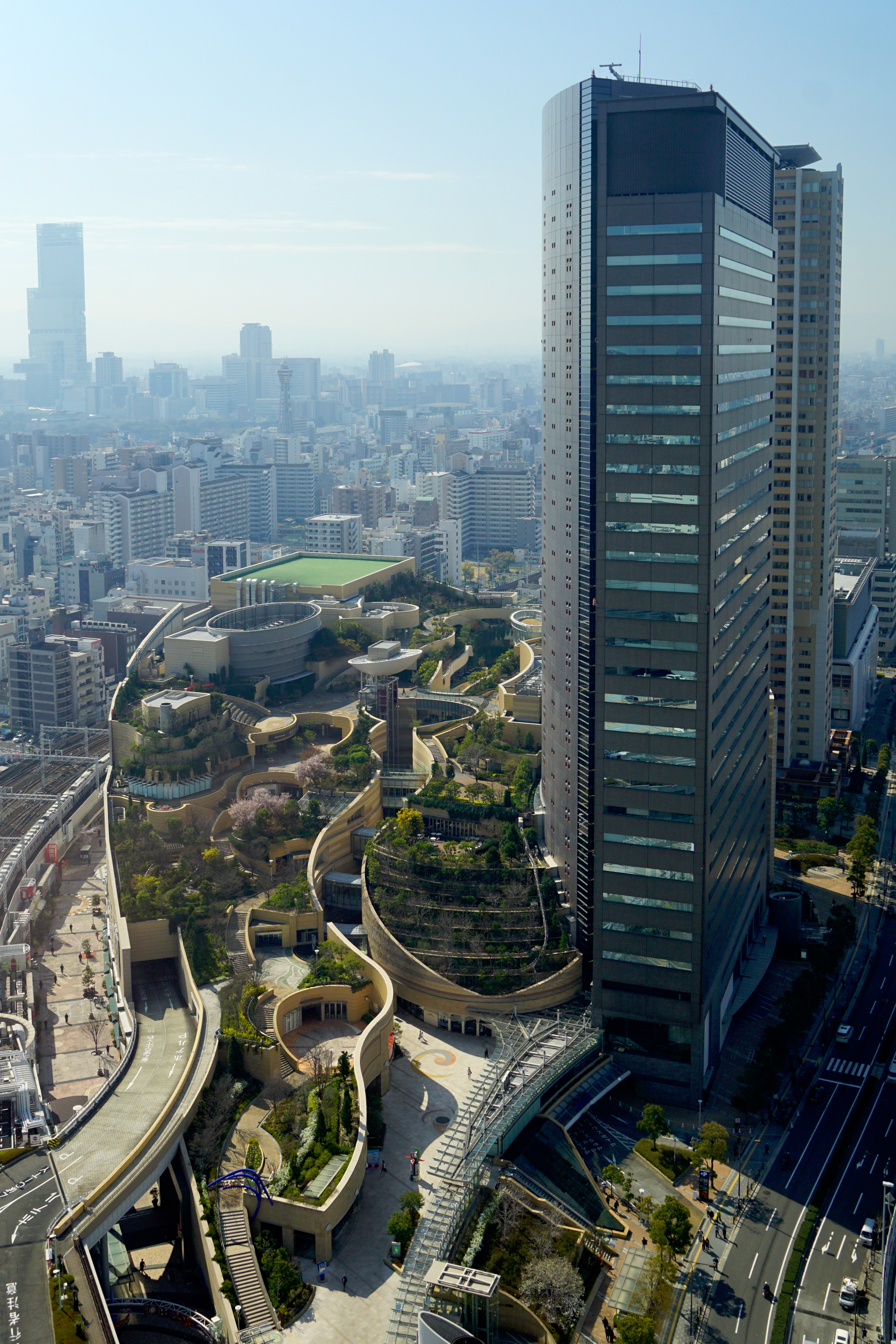 Namba Parks view from Swissôtel Nankai Osaka in Osaka, Osaka prefecture, Japan